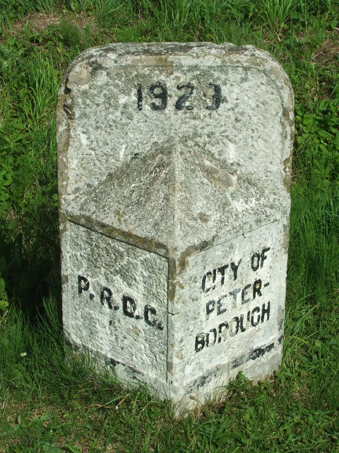 Boundary Post. Boundary marker near to Glinton, Cambridgeshire. For overall view see 1461198